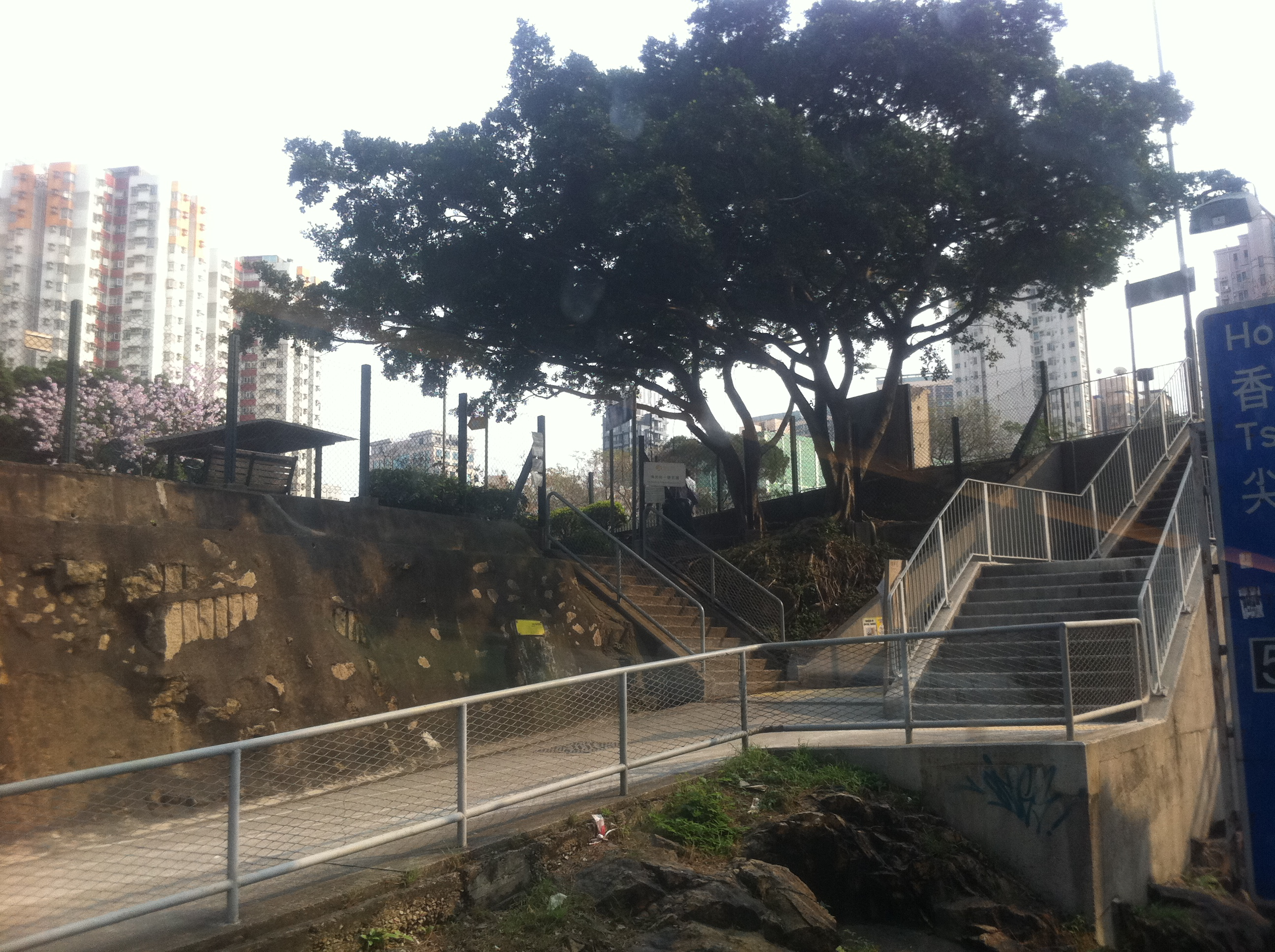 Chatham Road North 漆咸道北 佛光街遊樂場 Fat Kwong Street Playground